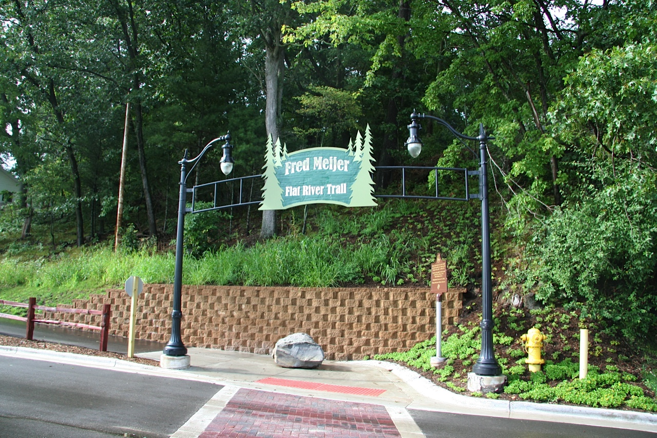 Entrance to the Fred Meijer Trail at Baldwin Lake Beach, Greenville Michigan